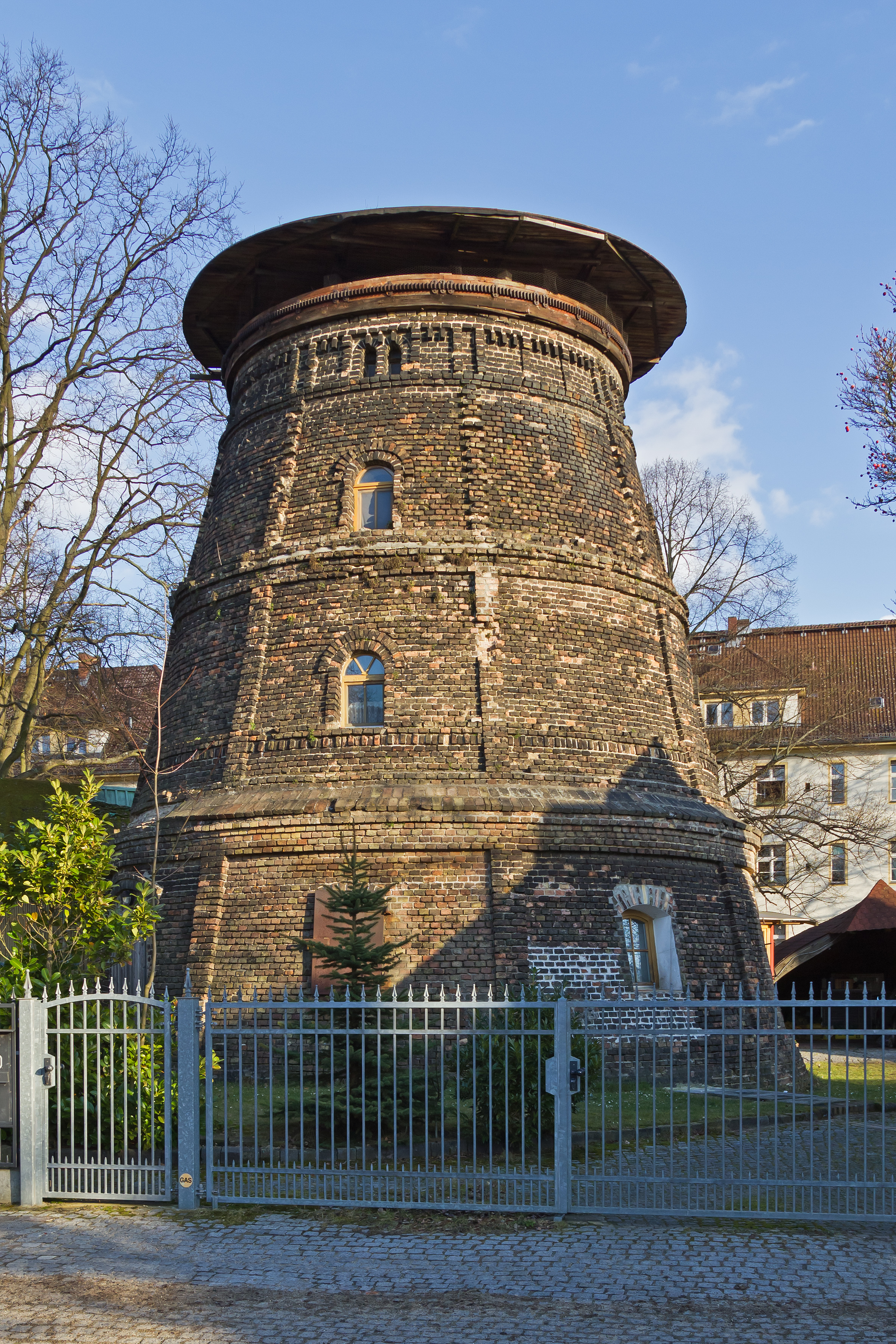 Former windmill in Berlin-Zehlendorf, Germany